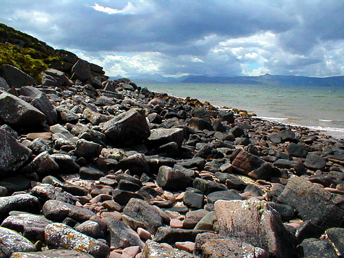 Rocky shore. Not far from Applecross, next to a lovely sandy bay with the mountains of Skye to the south and Raasay to the east. A dead seal lies amongst the boulders if you can spot it.